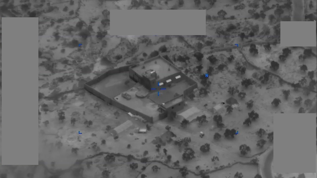 Al-Baghdadi's Compound pre-raid Oct. 26, 2019.